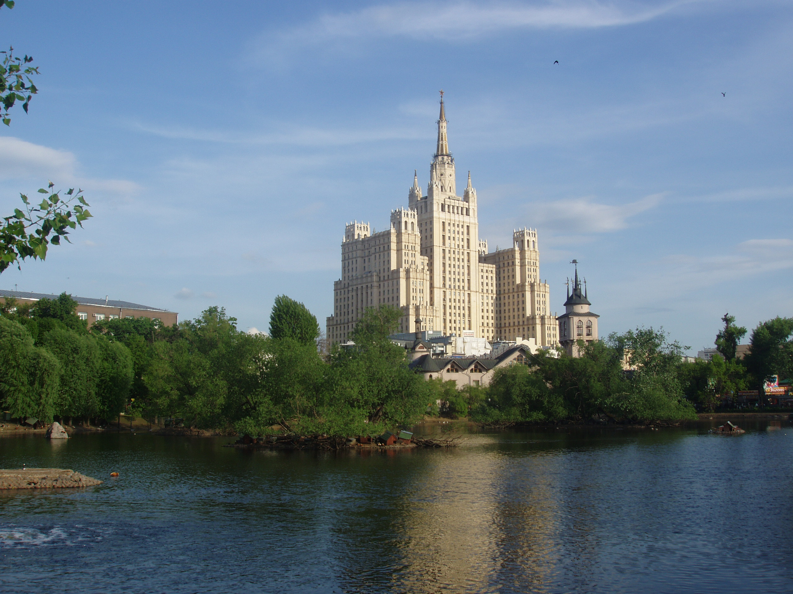 Kudrinskaya Square Building (sight from Moscow Zoo)